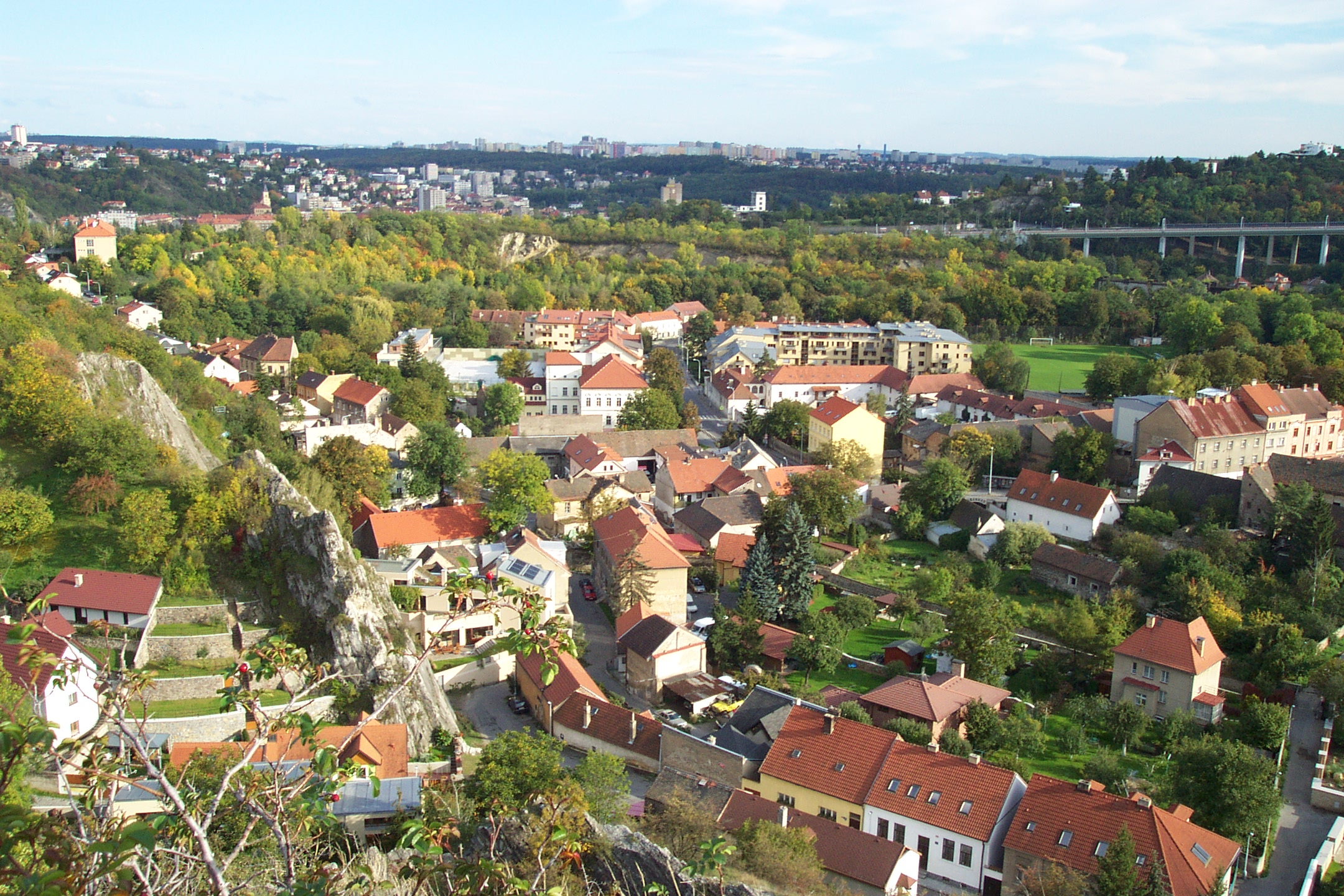 A view of Hlubočepy from Děvín rock located north from Hlubočepy, Prague, CZ